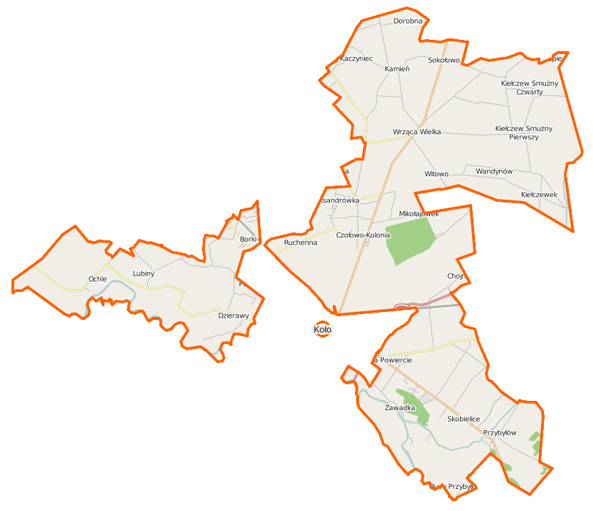 Map of Gmina Koło, Poland This map of Koło (gmina wiejska) was created from OpenStreetMap project data, collected by the community. This map may be incomplete, and may contain errors. Don't rely solely on it for navigation. Border coordinates52.300518.4777←↕→18.764352.1493